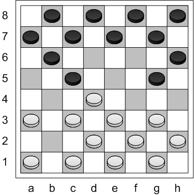 Position in opening Городская партия (Gorodskaya partiya) in russian checkers